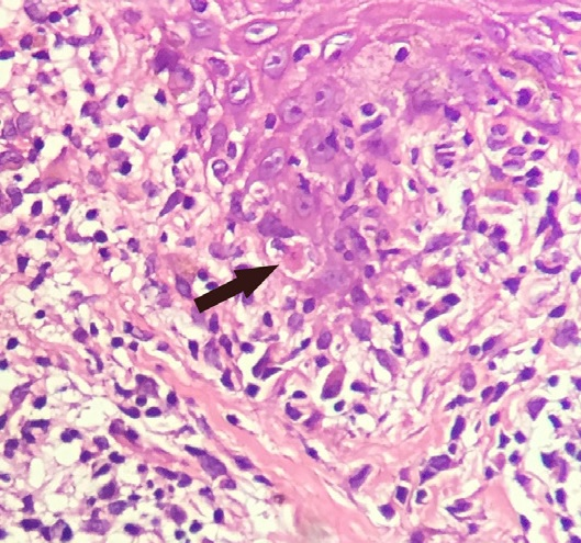 Micrograph of a civatte body.